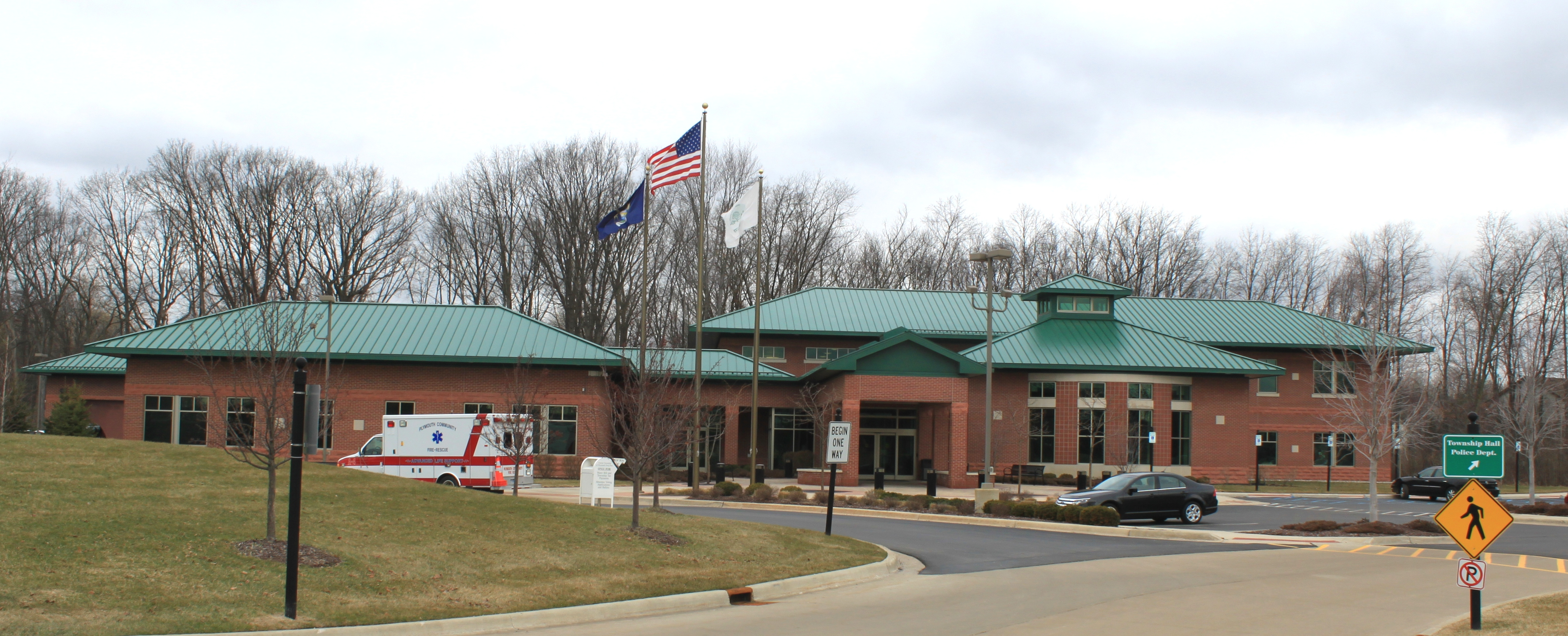 Plymouth Township Hall and Police Department, 9955 North Haggerty Road, Plymouth Township, Michigan